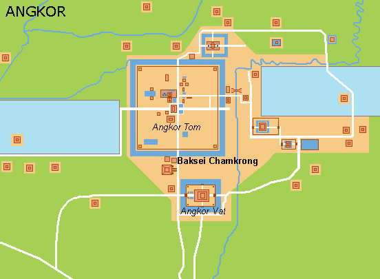 Baksei Chamkrong, situation. Angkor Cambodia